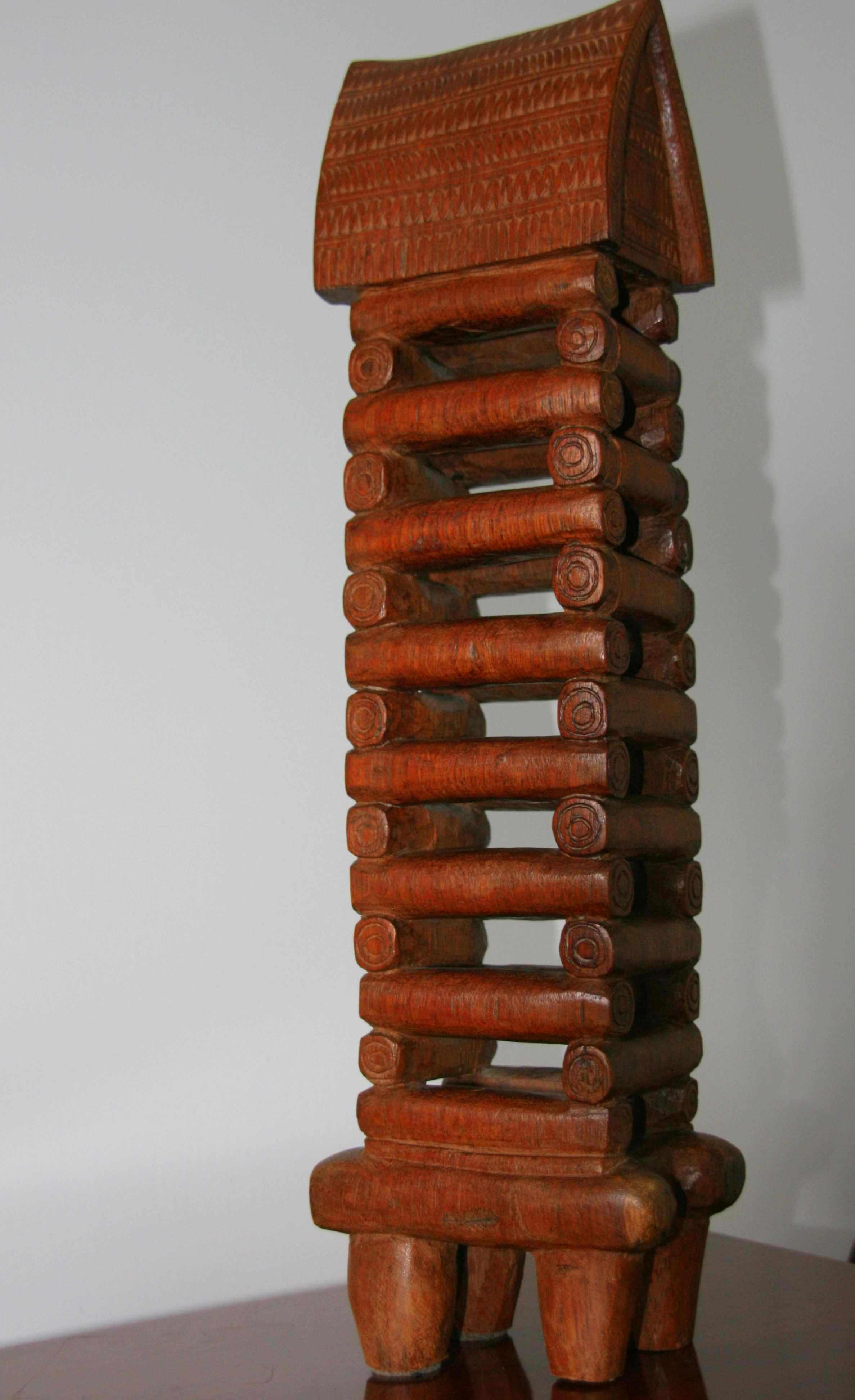 Wood carving of a traditional yam store in the Trobriand Islands, Papua New Guinea.